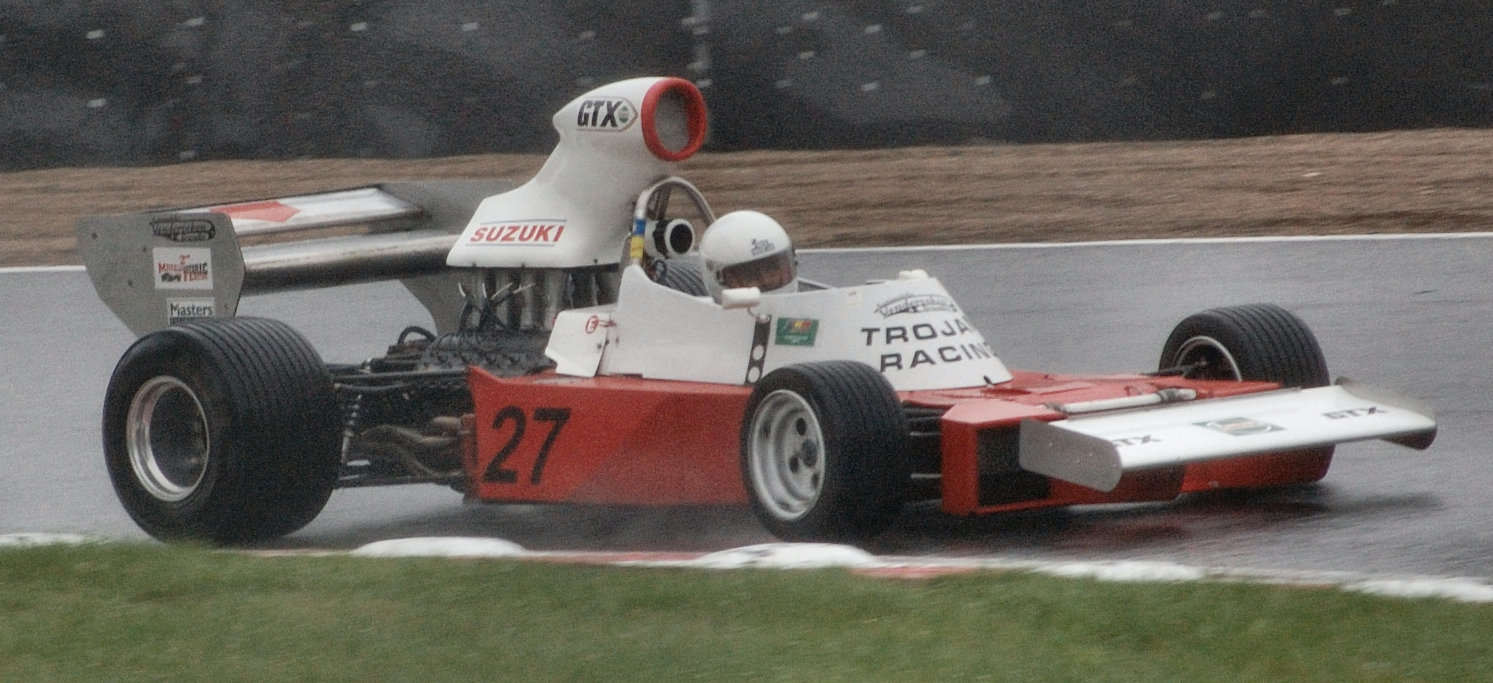 Paul Grant driving the Trojan 103 at Brands Hatch